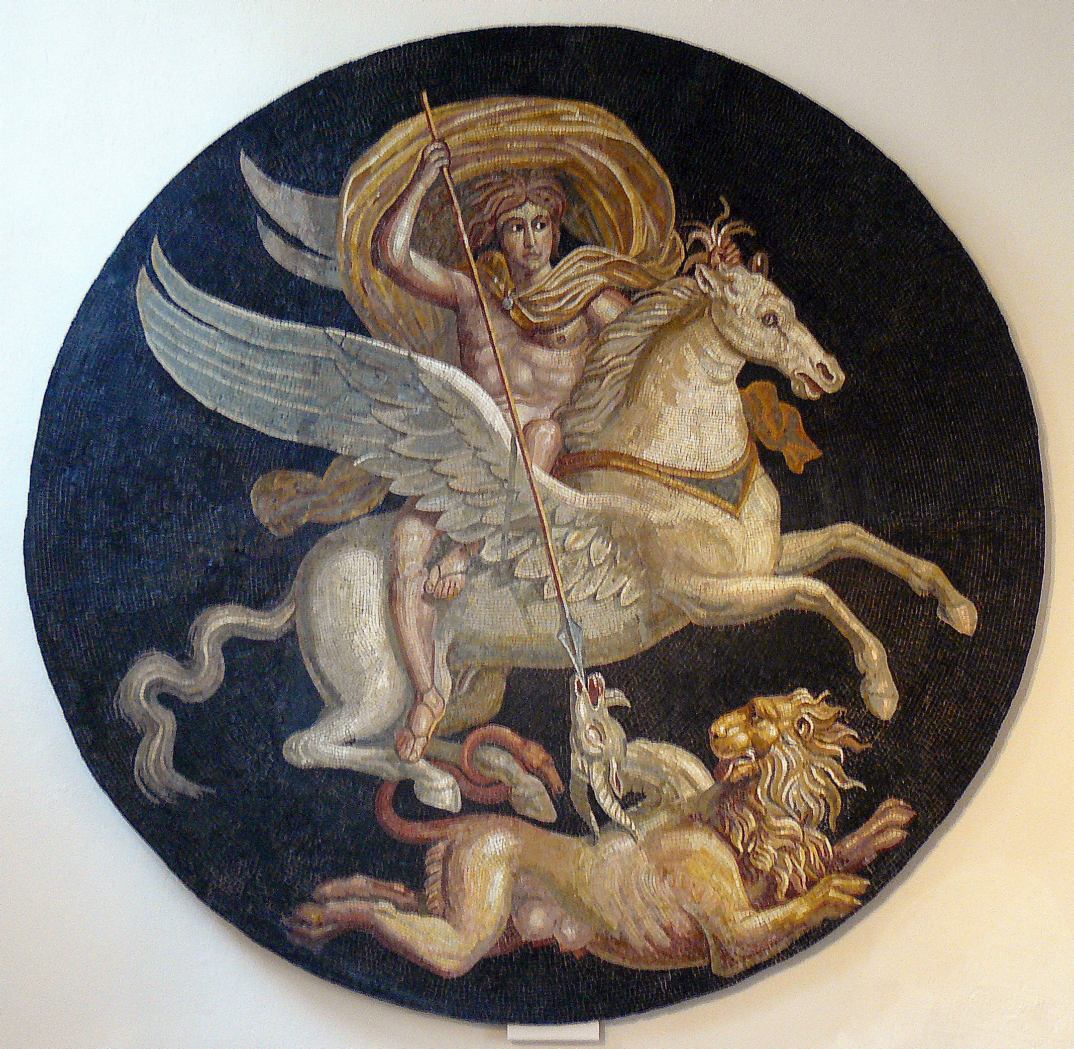 Bellerophon mounted on Pegasus vanquishing the Chimera. Restored central medallion of a Roman mosaic of more than 100 m² discovered in 1830 in Autun (Saône-et-Loire, France) and exhibited at the Musée Rolin.